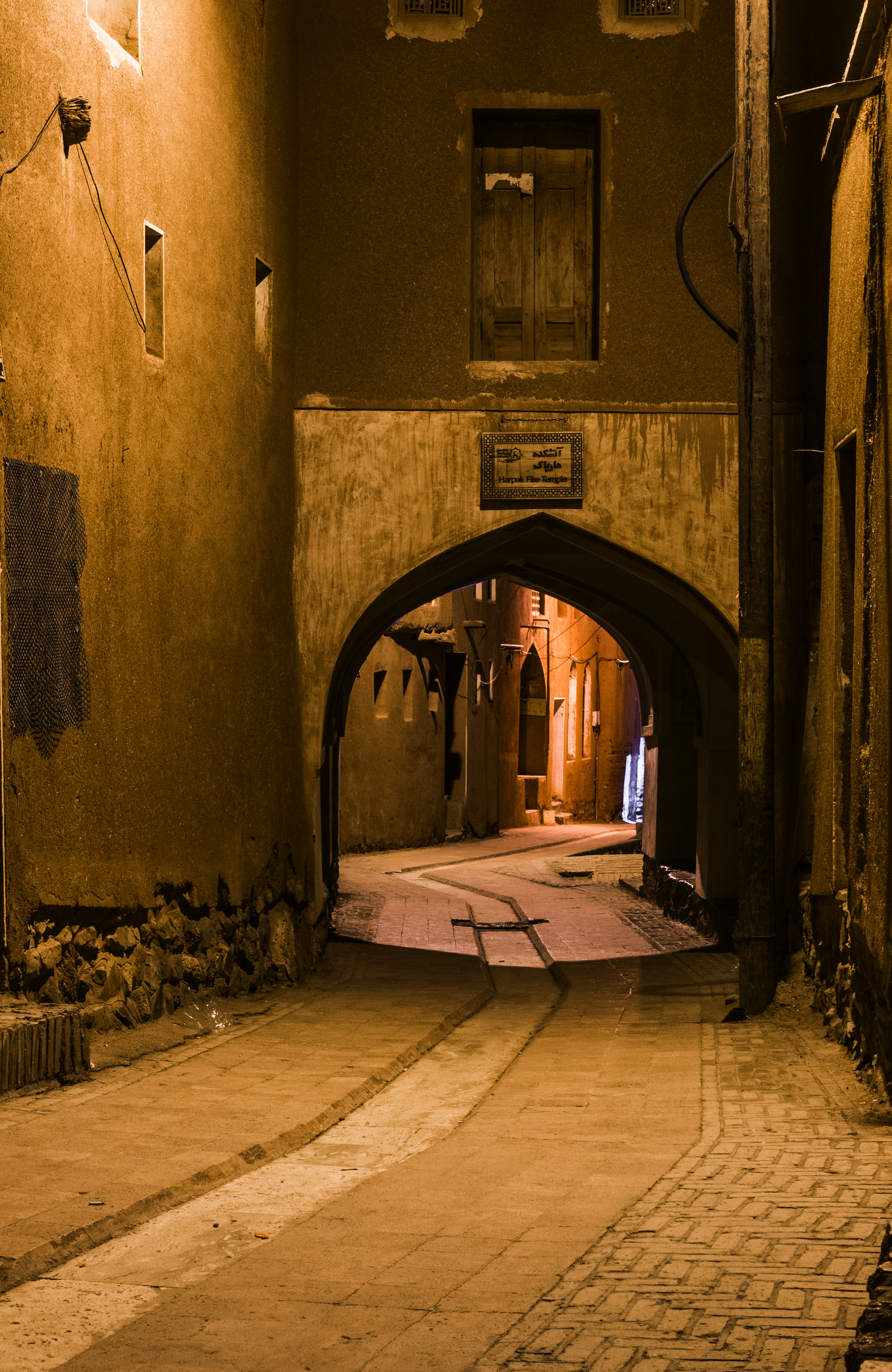 Harpark fire place at the city of Abyaneh.